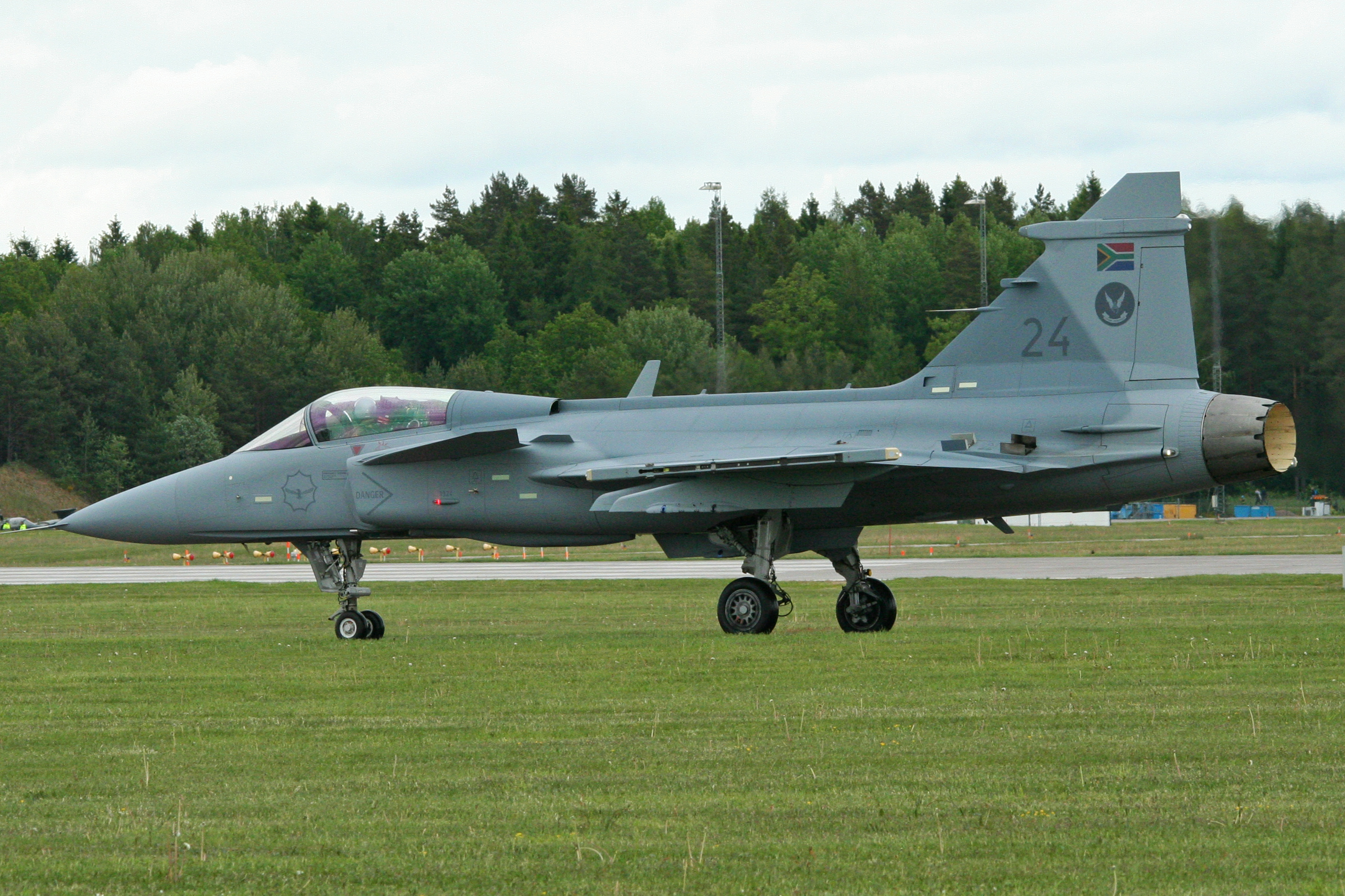 The South African Gripens have a camoflage effect, rather than just being grey. msn 39-2115. 2012 Malmen Airshow, Sweden. 03-06-2012